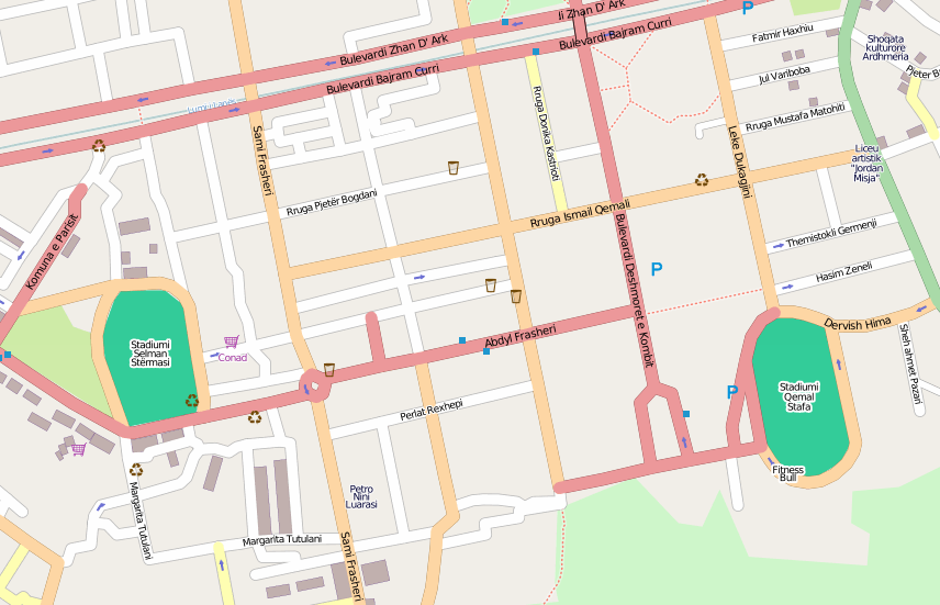 Map of stadium